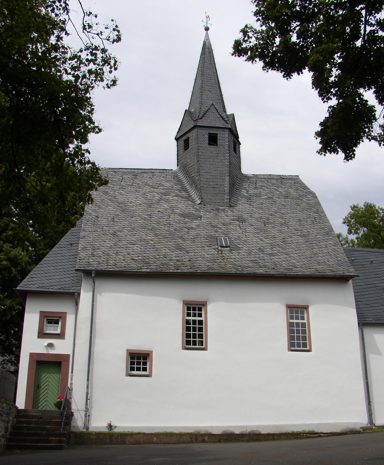 Church in Mücke-Atzenhain in Hesse, Germany